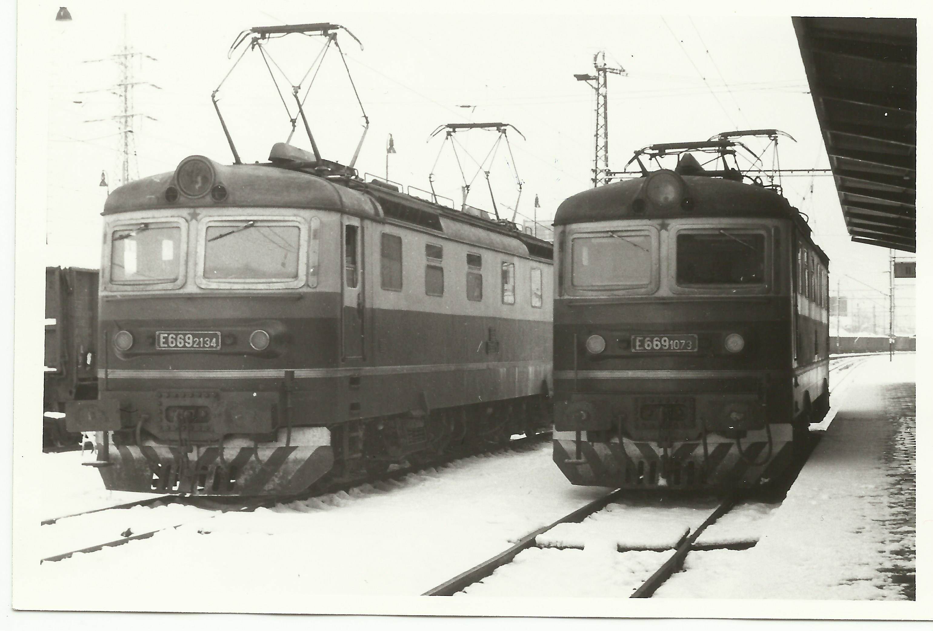 E 669 2134, Vítkovice 1986 (Czechoslovakia).